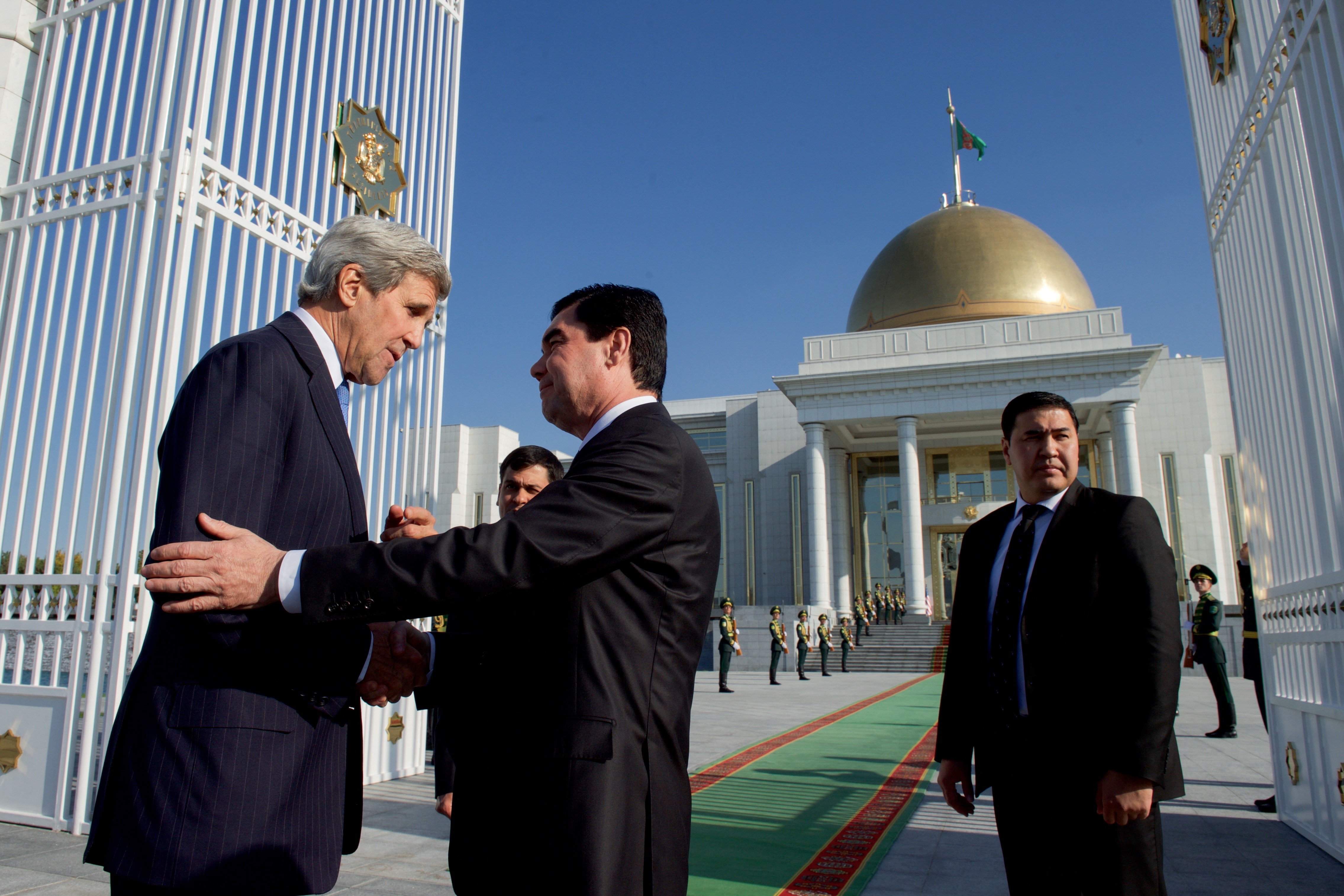 U.S. Secretary of State John Kerry shakes hands with Turkmenistan President Gurbanguly Berdimuhamedov on November 3, 2015, at the gates of the Oguzkhan Presidential Palace in Ashgabat, Turkmenistan, following a bilateral meeting.